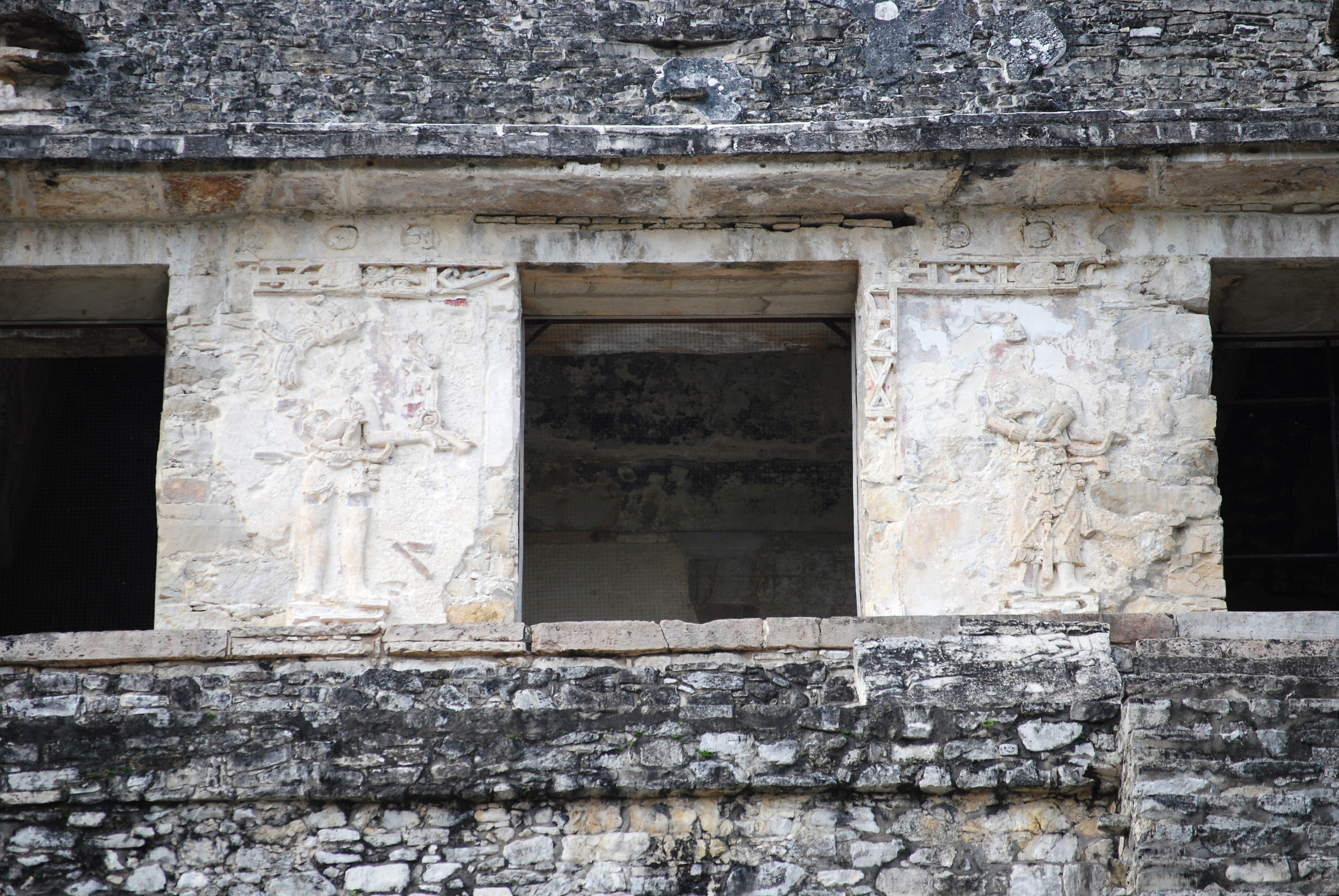 Upper middle panels of the Temple of Inscriptions in Palenque, Chiapas, Mexico